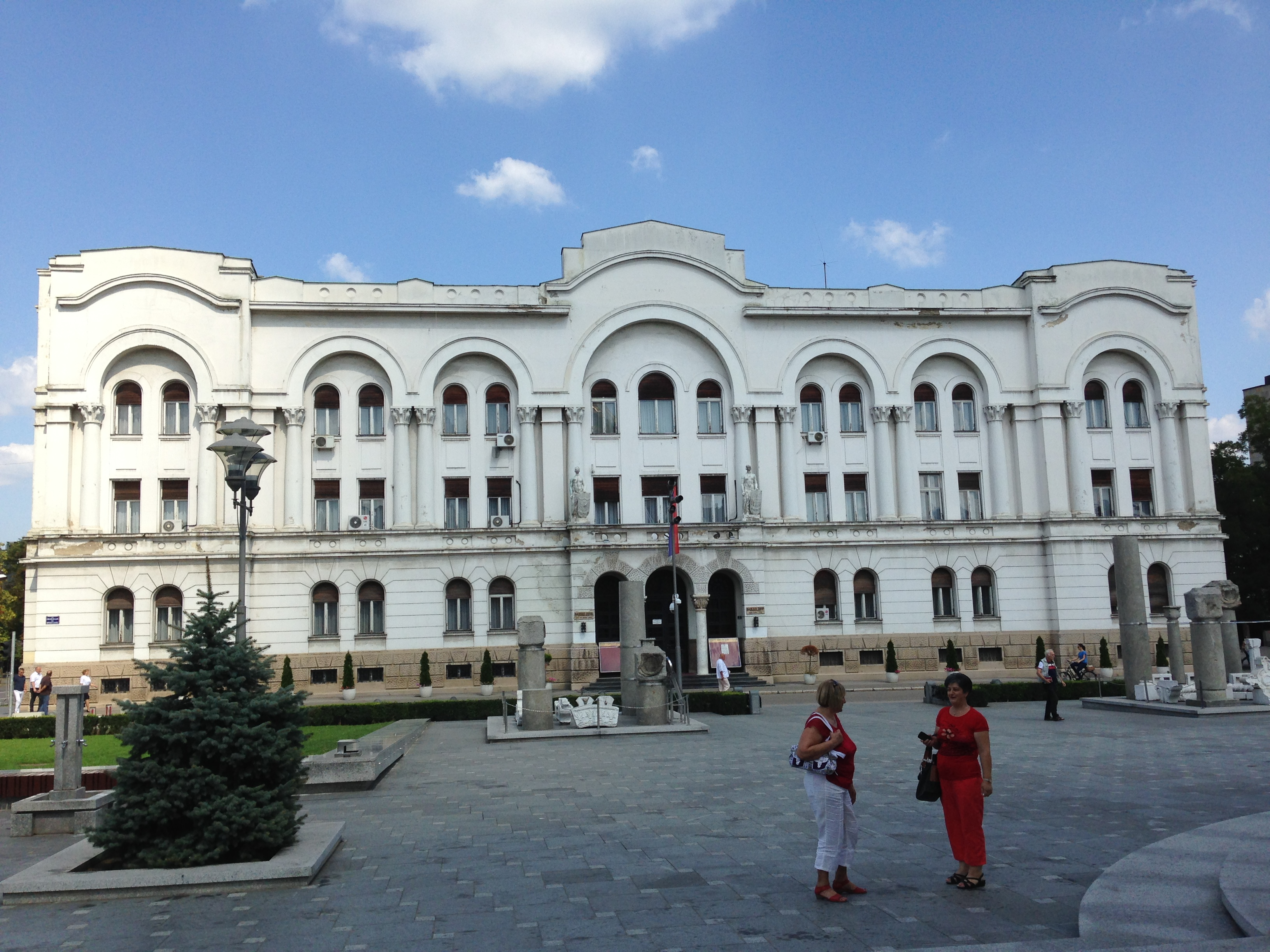 Ban palata in Banja Luka